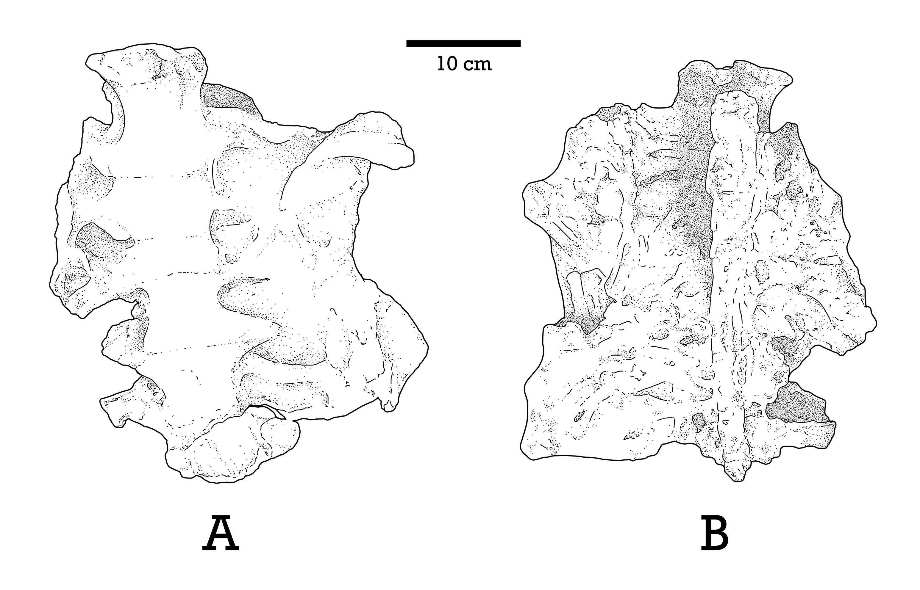 Diagram of the well preserved sacrum in the holotype of Enigmosaurus mongoliensis: IGM 100/84, in A) ventral view and B) dorsal view. Mostly based on Zanno et al. 2010[1] and Mickey Mortimer (The Theropod Database).[2] __________________________________________________________________________________________________________________________________